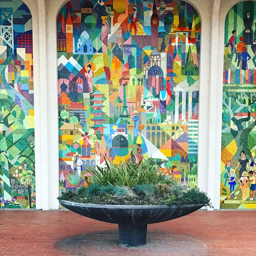 Louis Macouillard (1913-1987) designed mural, mosaic completed by Alfonso Pardinas in 1963 in San Mateo, California, The mural tells the story of A. P. Giannini the founder of Bank of Italy, which later morphed into Bank of America.